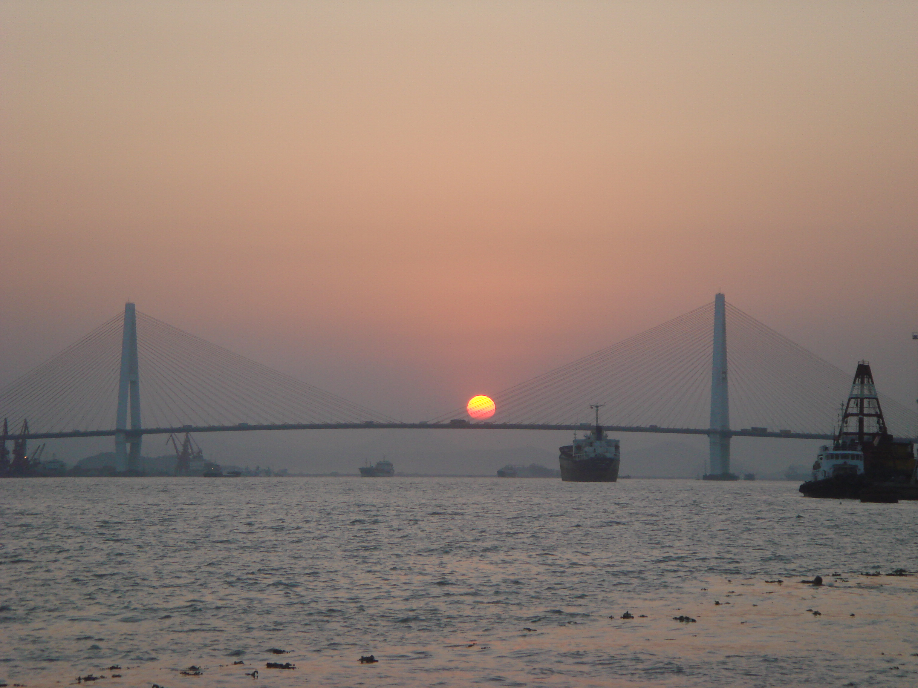 The Queshi Bridge over the Swatow Bay